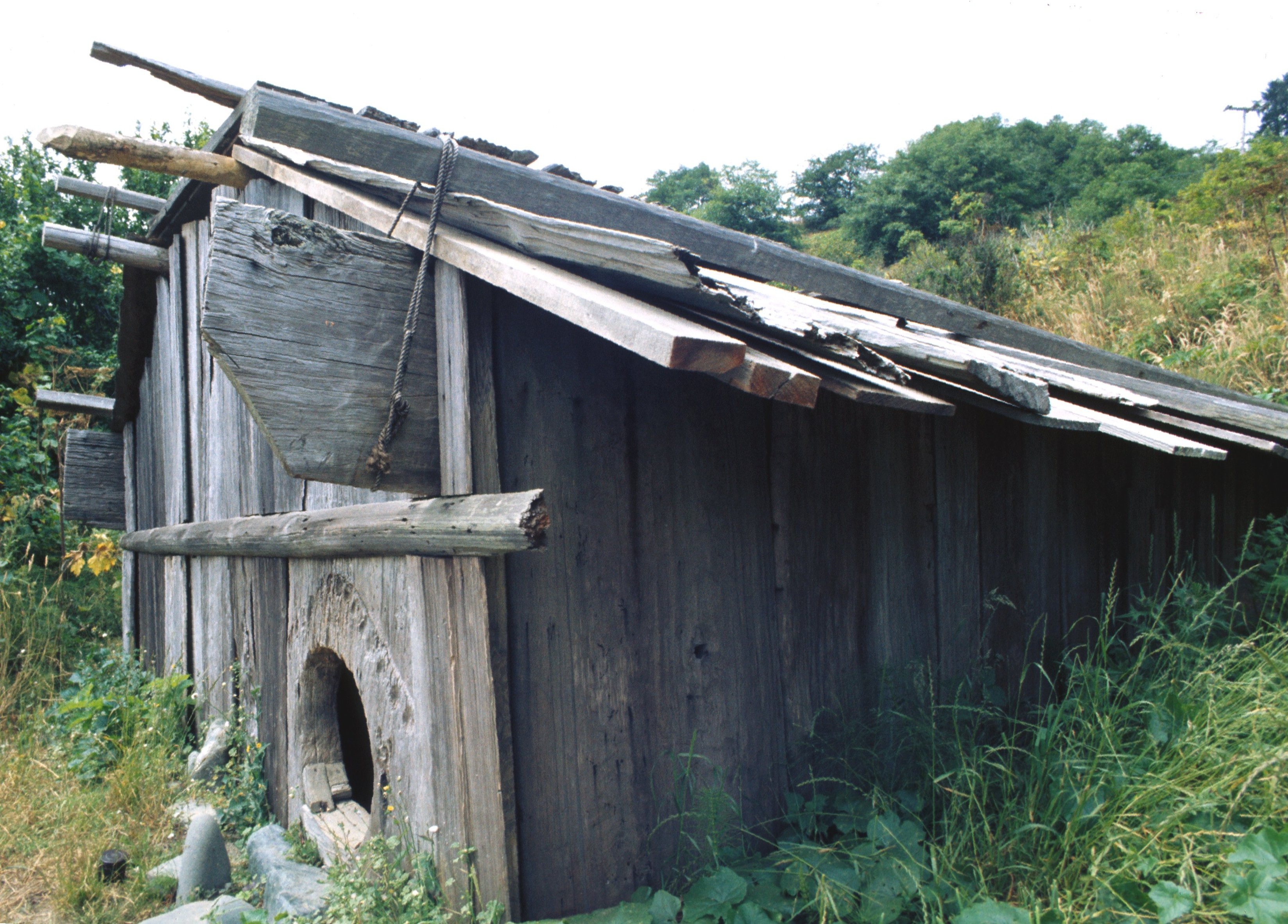 reconstructed plankhouse as traditional dwelling of the yurok nation in todays California in Redwood National Park